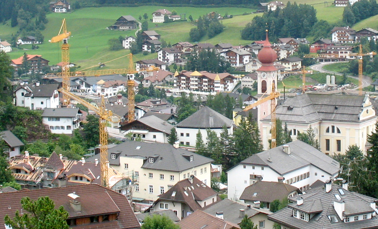 The center of Urtijei in a fervid building activity